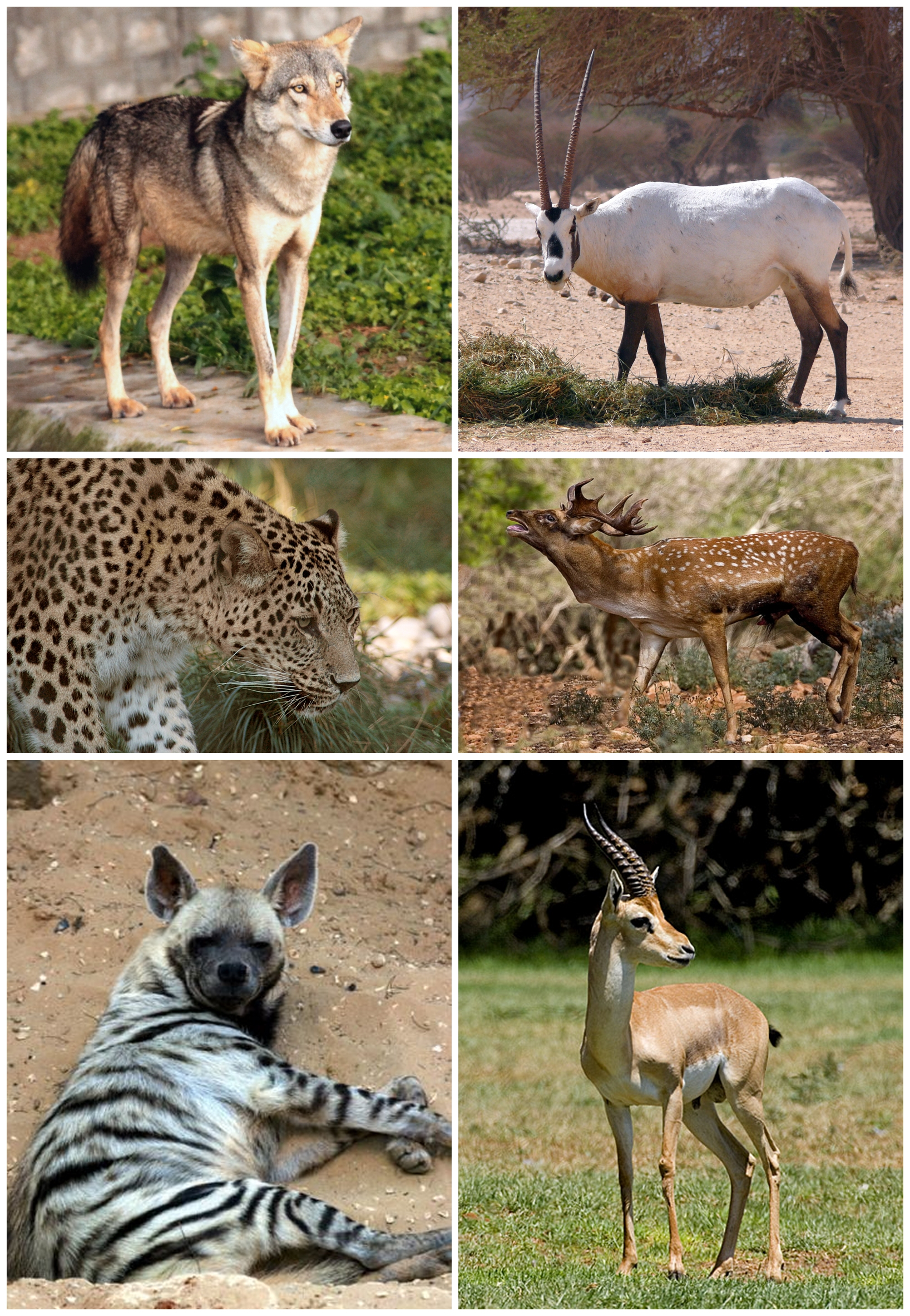 Mammals of the Levant (Syria, Lebanon, Jordan, and Palestine/Israel) Indian/Iranian Wolf Arabian Oryx Persian Leopard Persian Fallow Deer Striped Hyena Mountain Gazelle